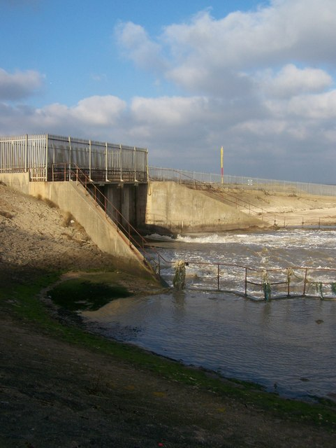 Cooling Water Outfall